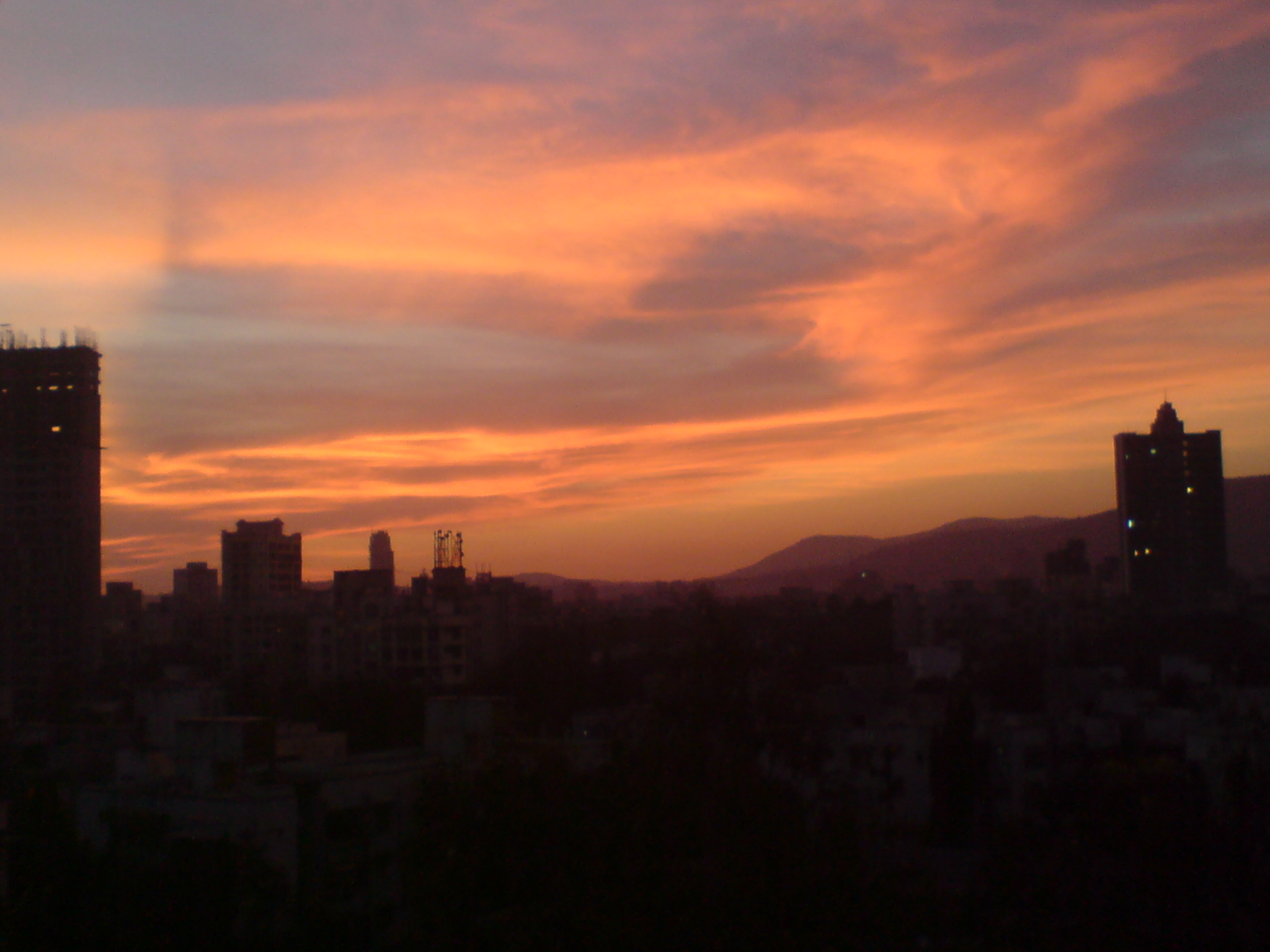 A beautiful cloud formation seen in Mumbai, India